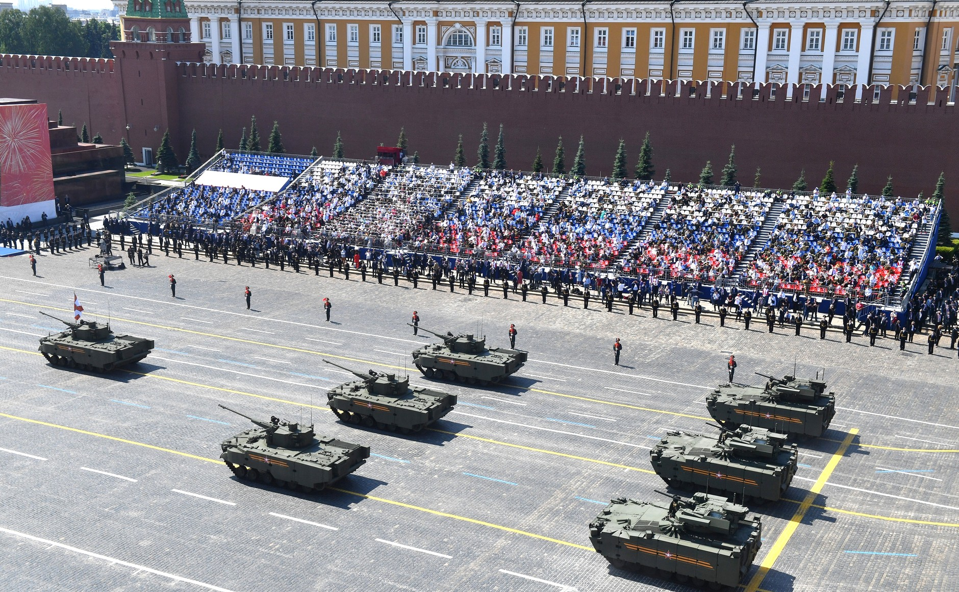 2020 Moscow Victory Day Parade Аҧсшәа: Военный парад на Красной площади в Москве 24 июня 2020 года